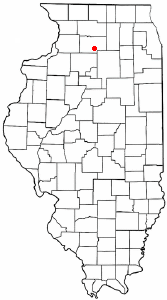 Category:Illinois city locator maps